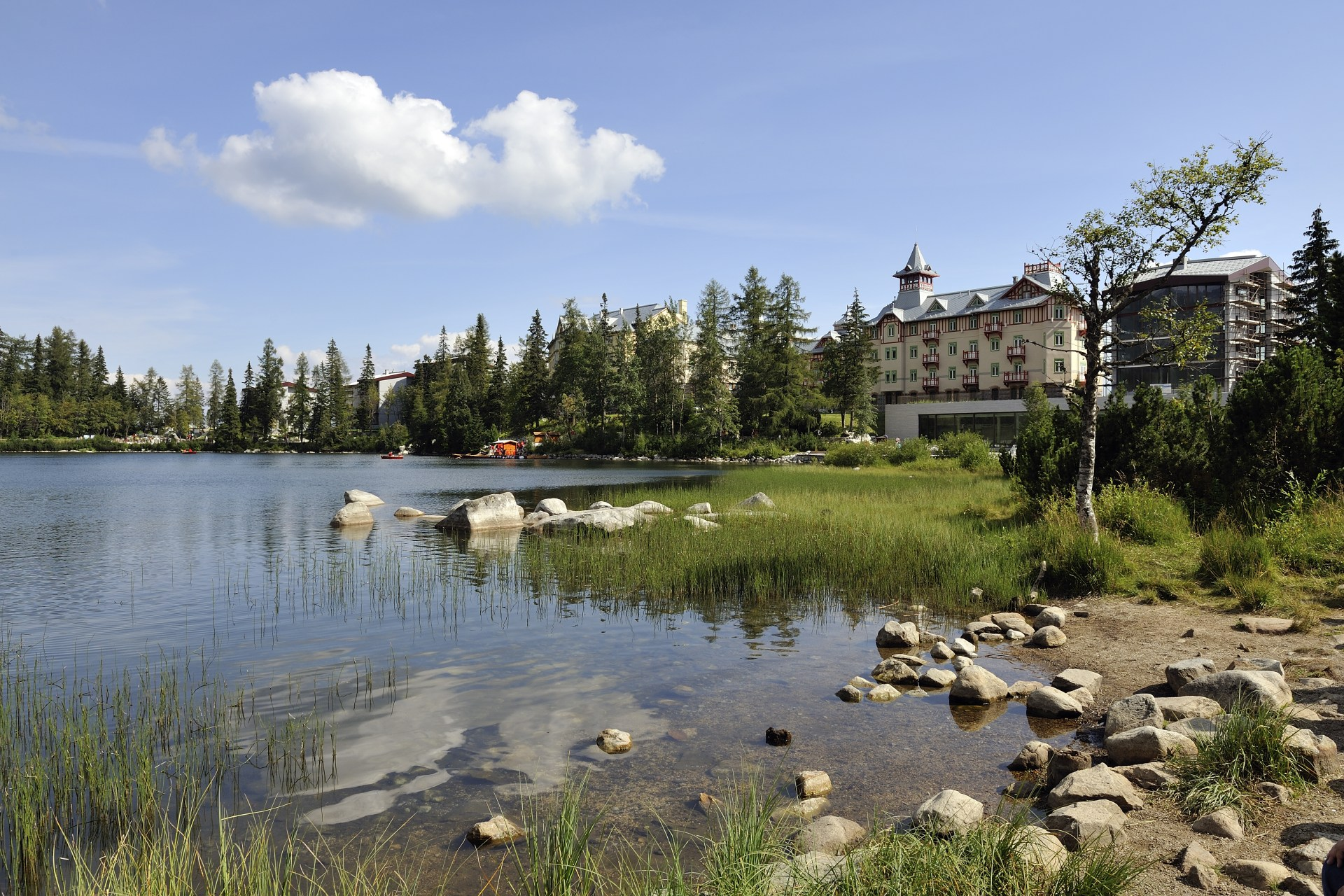 present picture of the hotel from Strbske pleso lake